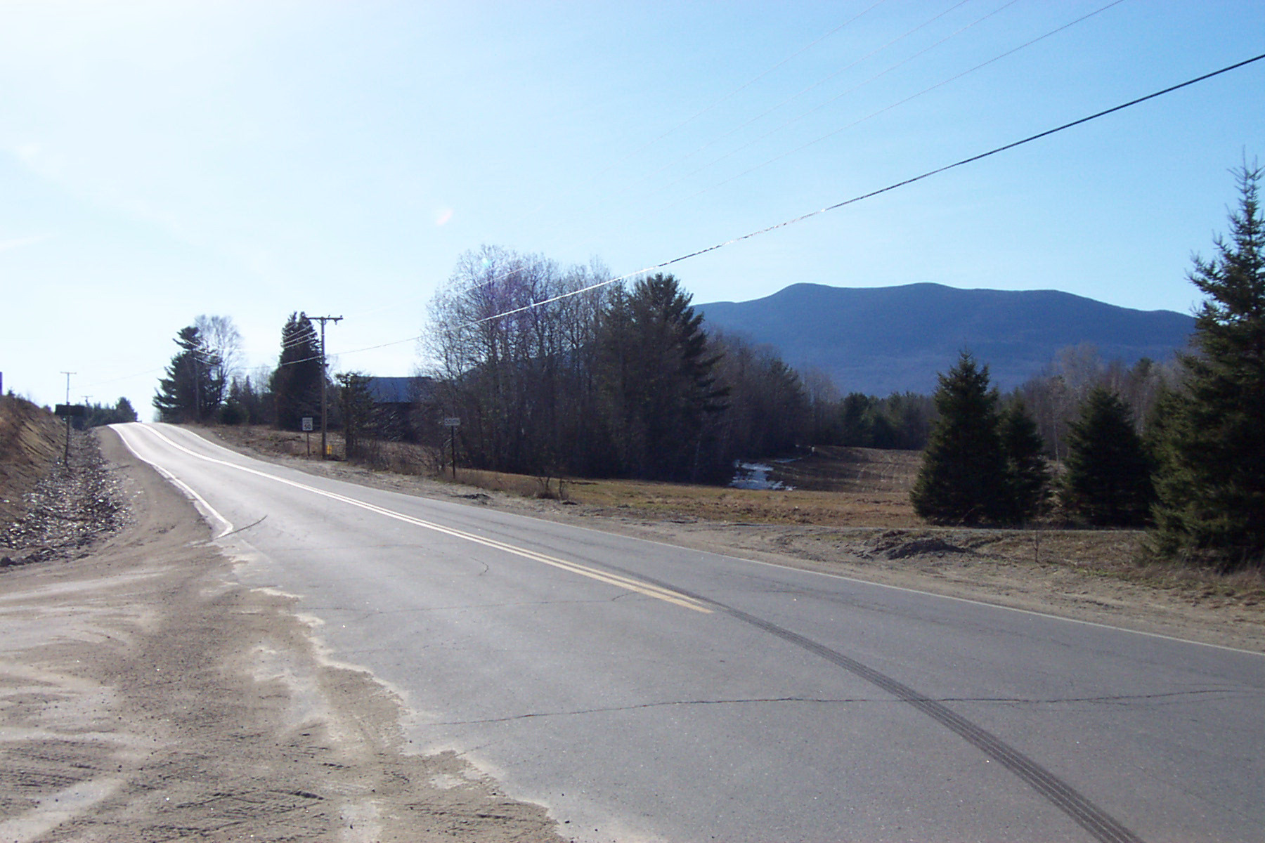 Intersection of Maine State Routes 142 and 145, with Mount Abraham in the background